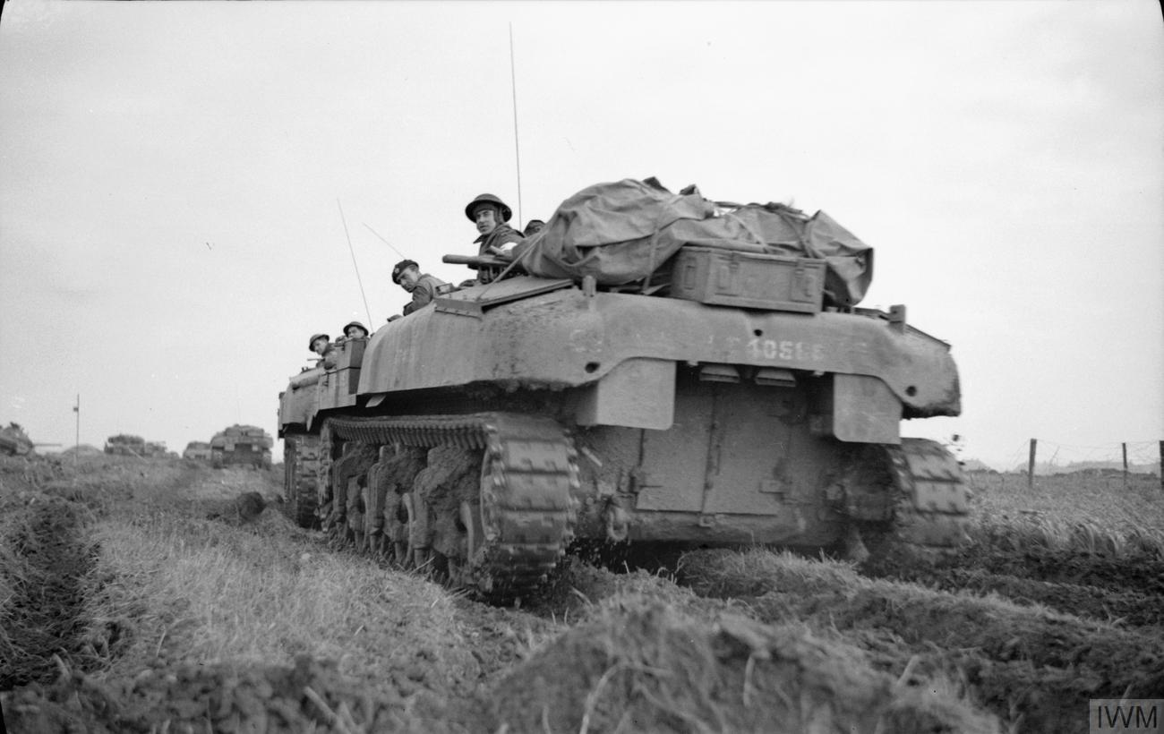 IWM caption : THE BRITISH ARMY IN NORTH-WEST EUROPE 1944-45; Ram Kangaroo armoured personnel carriers carrying infantry of 8th Royal Scots during the assault by 15th (Scottish) Division on Blerick.